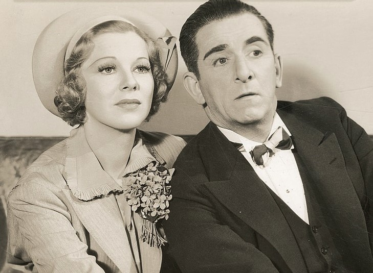 A cropped photo from the American comedy film Nobody's Fool (1936) with Edward Everett Horton and Glenda Farrell.